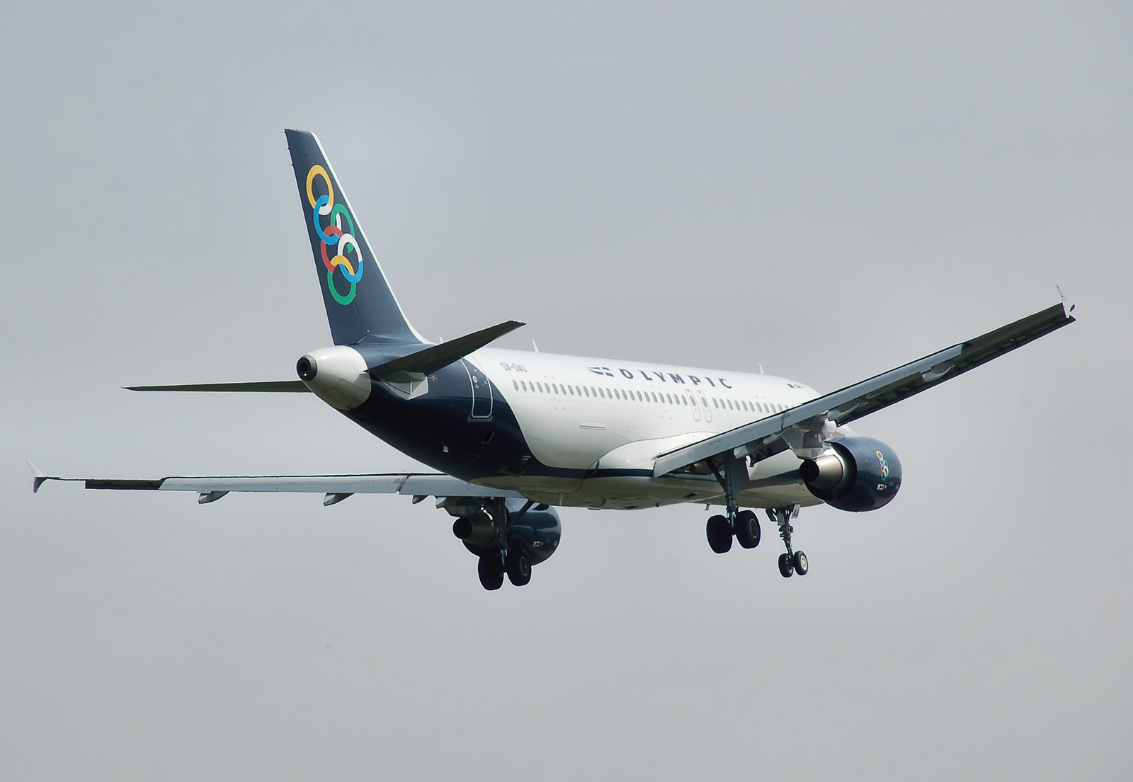 Olympic Air Airbus A320-200 (SX-OAU) lands at London Heathrow Airport, England.